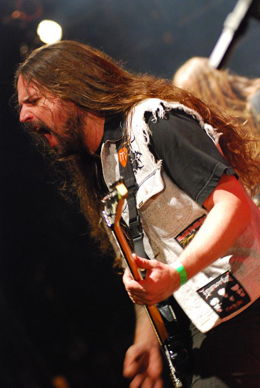 Andreas Kisser, of the thrash metal band Sepultura